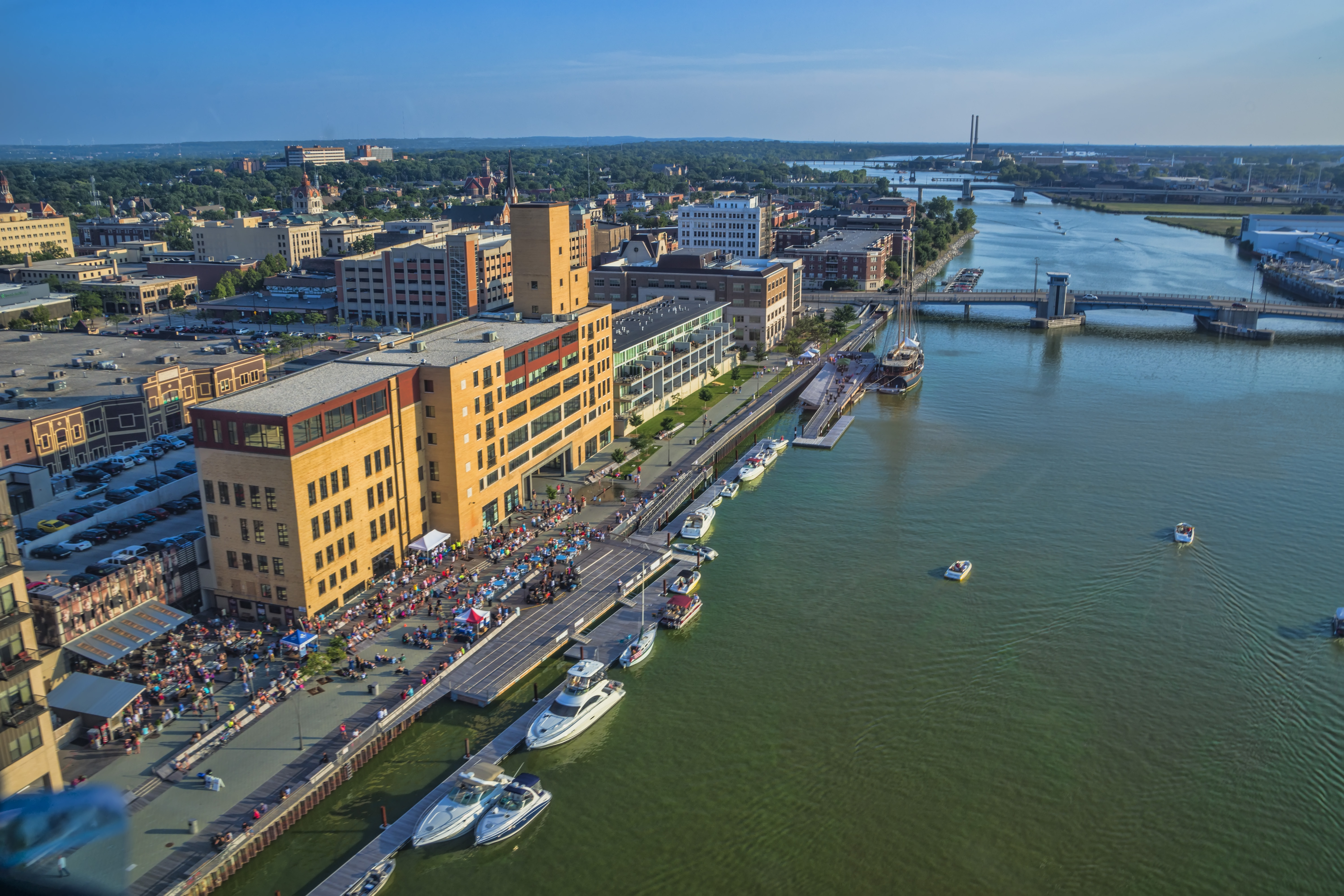 Friday evening concert on the CityDeck with the Peacemaker tall ship docked at the Cherry Street boat landing.